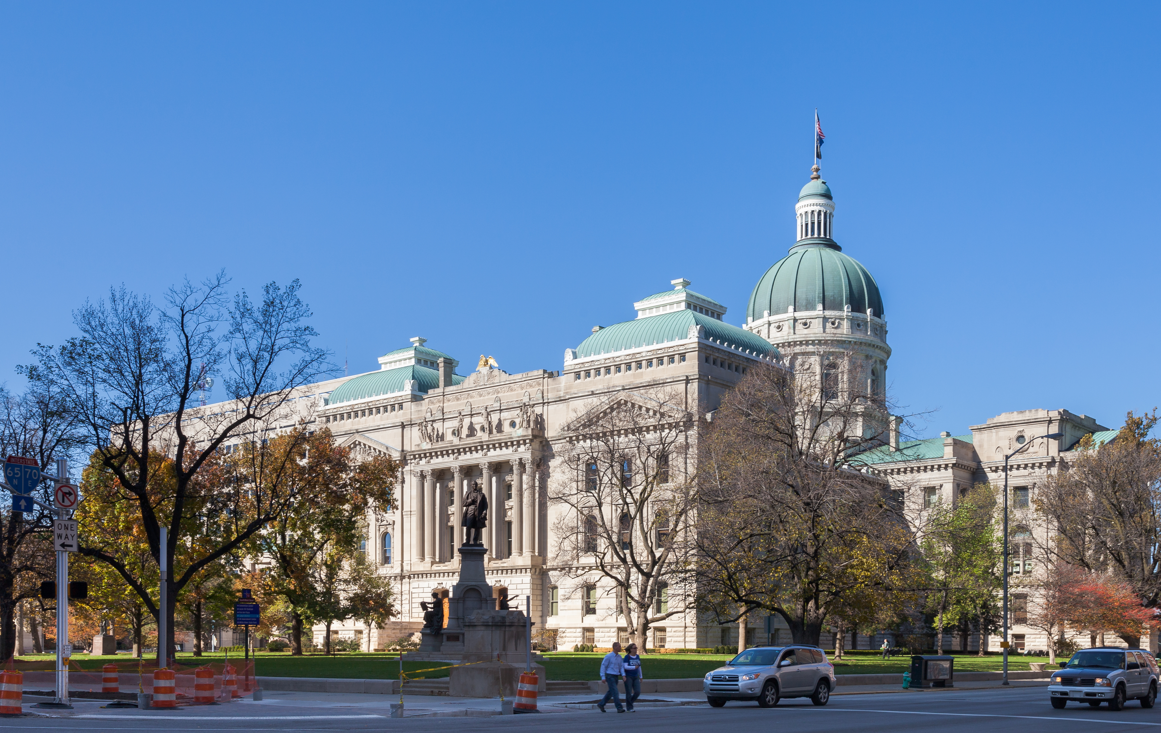 Indiana State Capitol, Indianapolis, USA